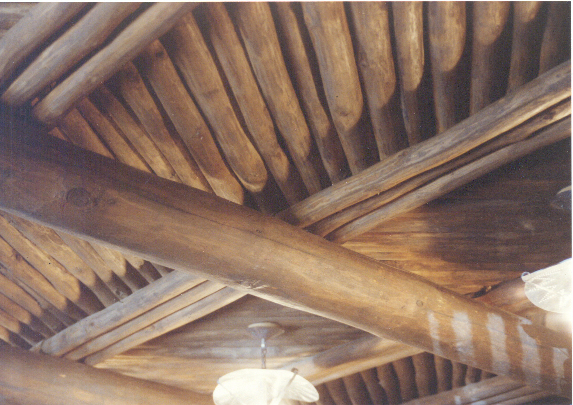 Latillas and vigas in the Bandelier National Monument Headquarters, originally the Park Lodge built by the Civilian Conservation Corp.